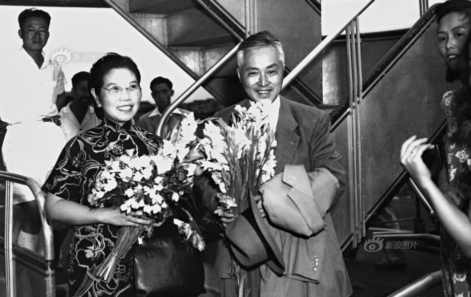 1949年陈立夫与妻子乘飞机抵达台湾。